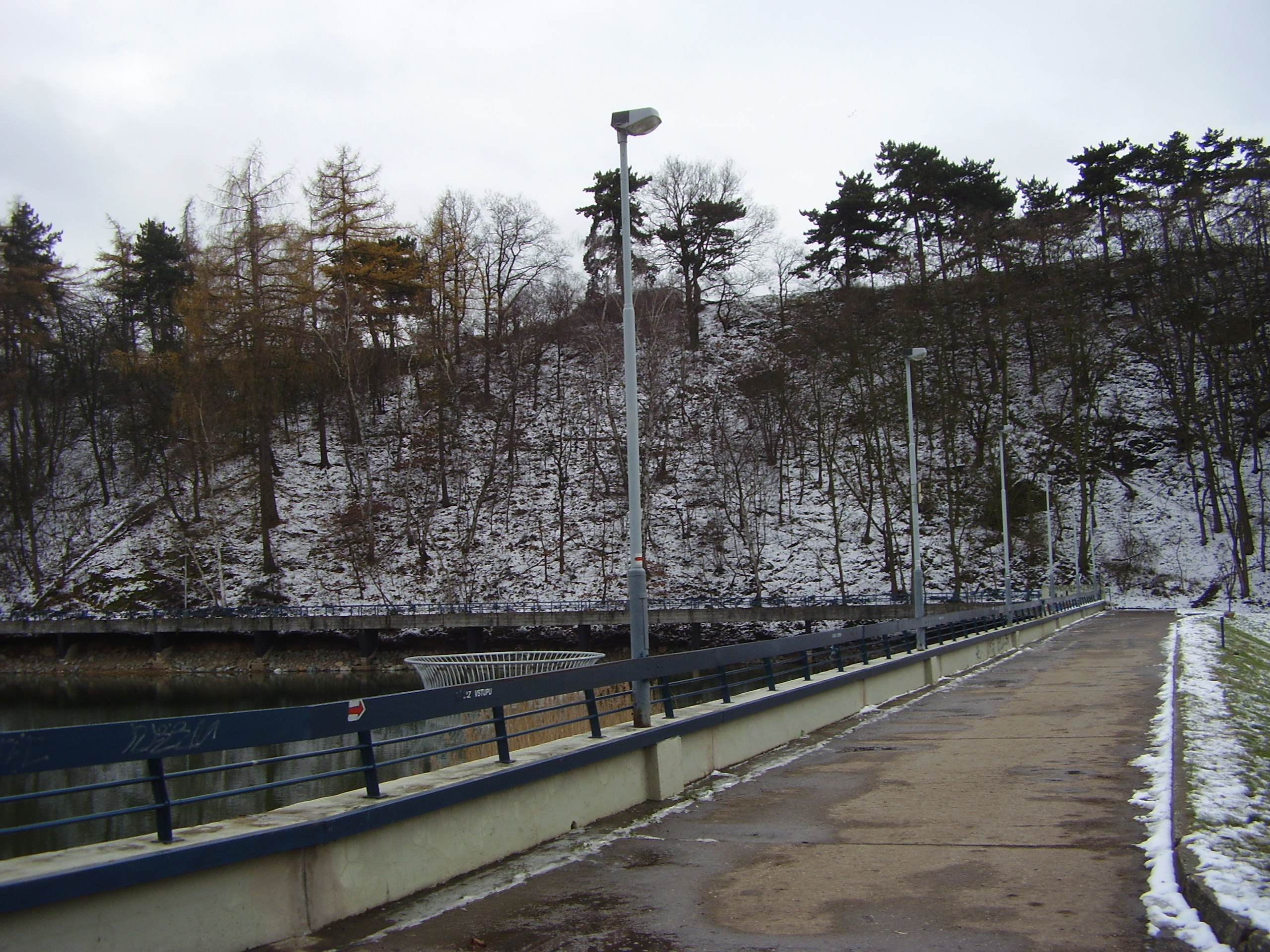 Dam of reservoir Džbán, Divoká Šárka, Prague 6